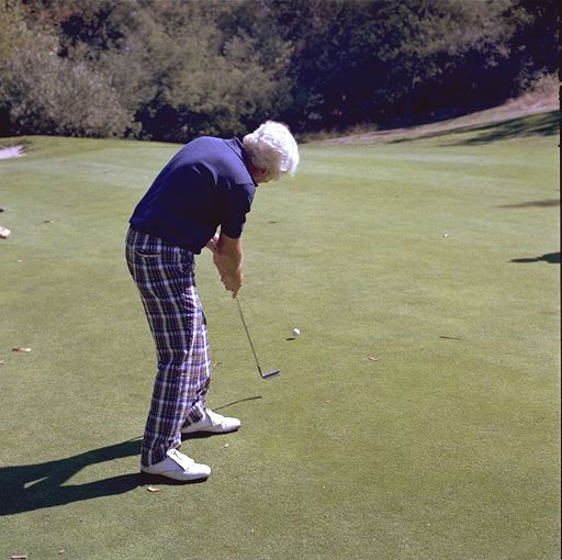 Recruiting Brochure: Shot of Bay Area Sports Activities 1979-1995 (Joe March)